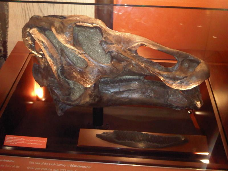 Edmontosaurus regalis skull NHM R8927 at the Natural History Museum in London, England.